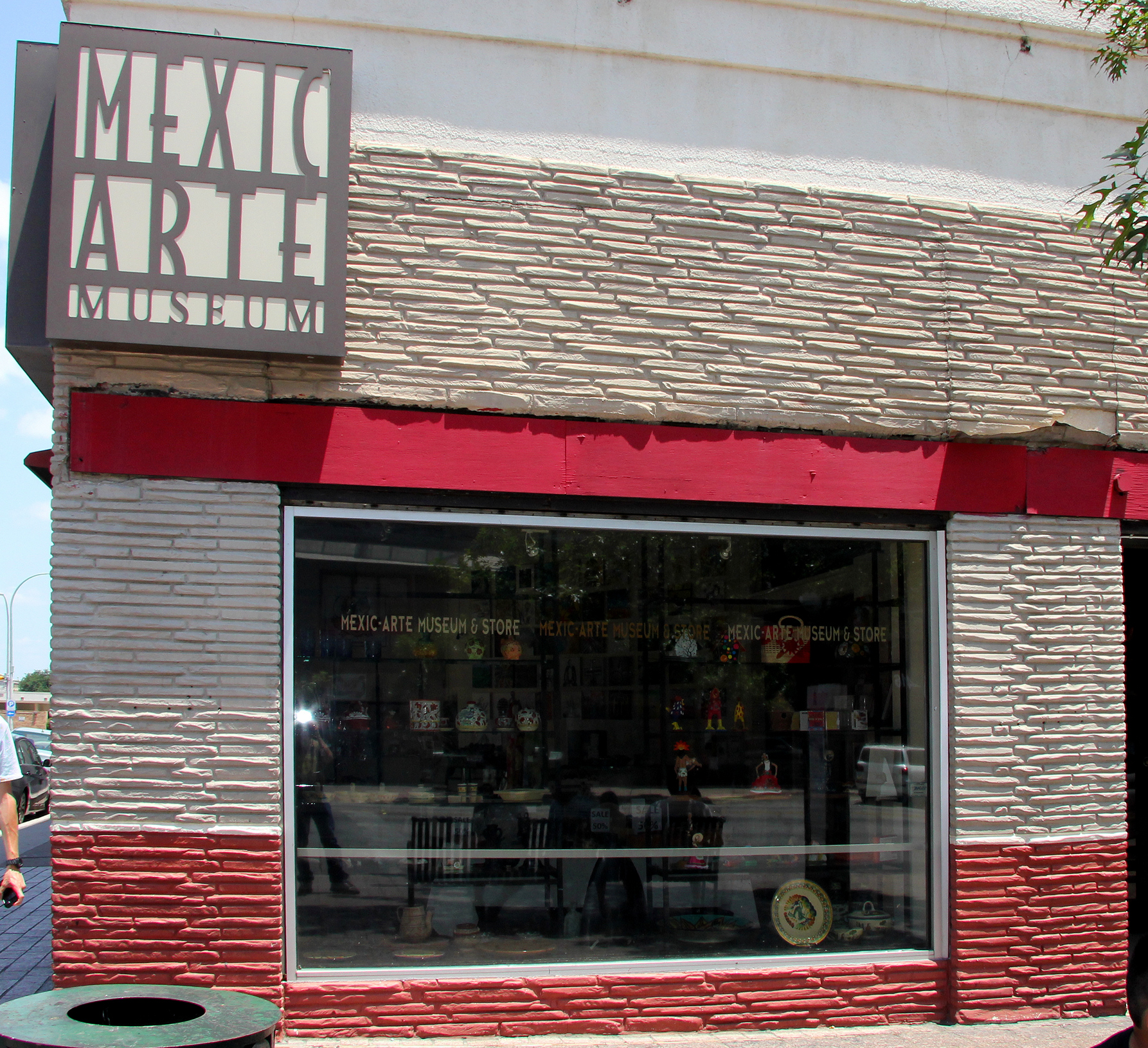 The front of the Mexic-Arte Museum at 419 Congress, Austin, Texas, United States.